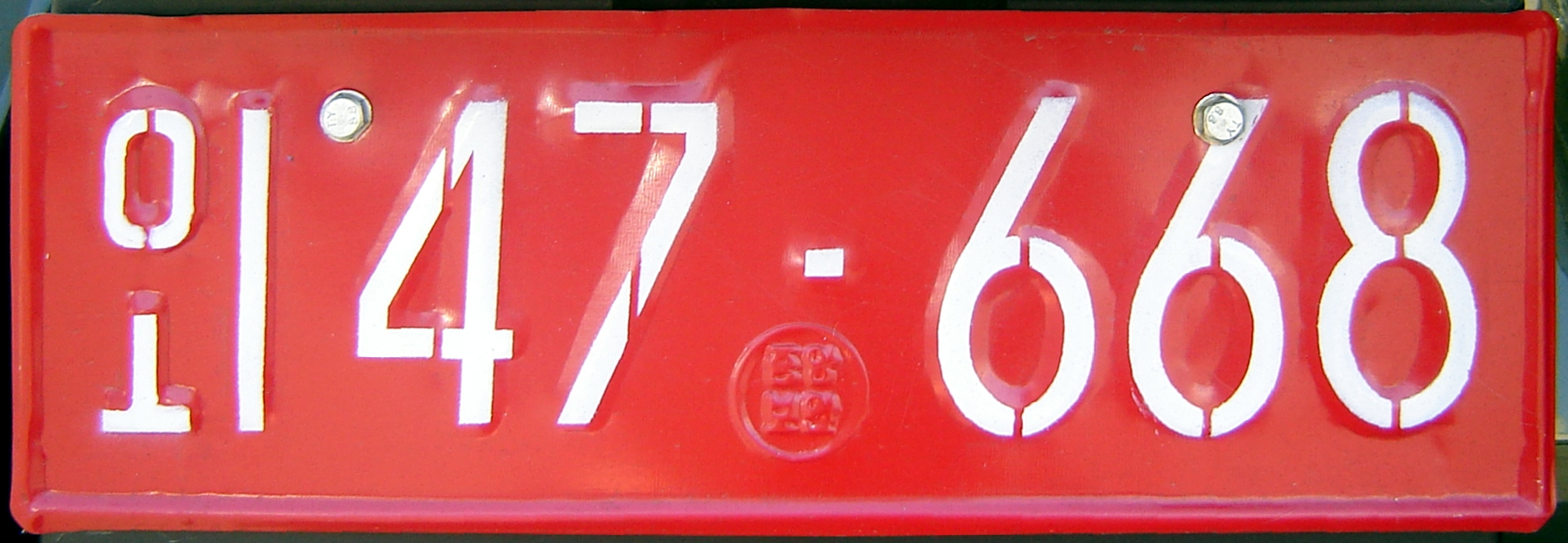 Licence plates from North Korea for vehicles of foreign companies/joint ventures, 외: Foreign/Foreigner ("outside"), 47: Foreign trade, Photo taken in Pyongyang, North Korea